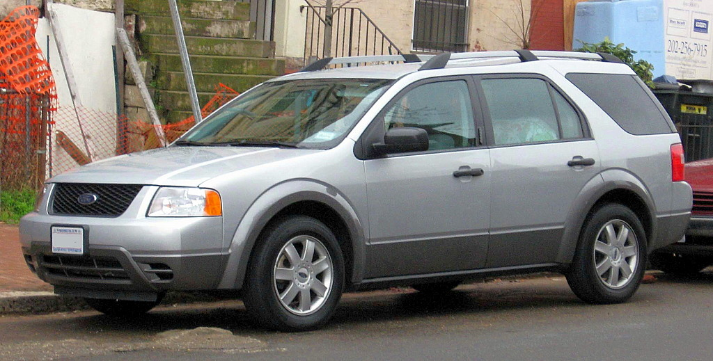 2005-2007 Ford Freestyle SE photographed in USA.